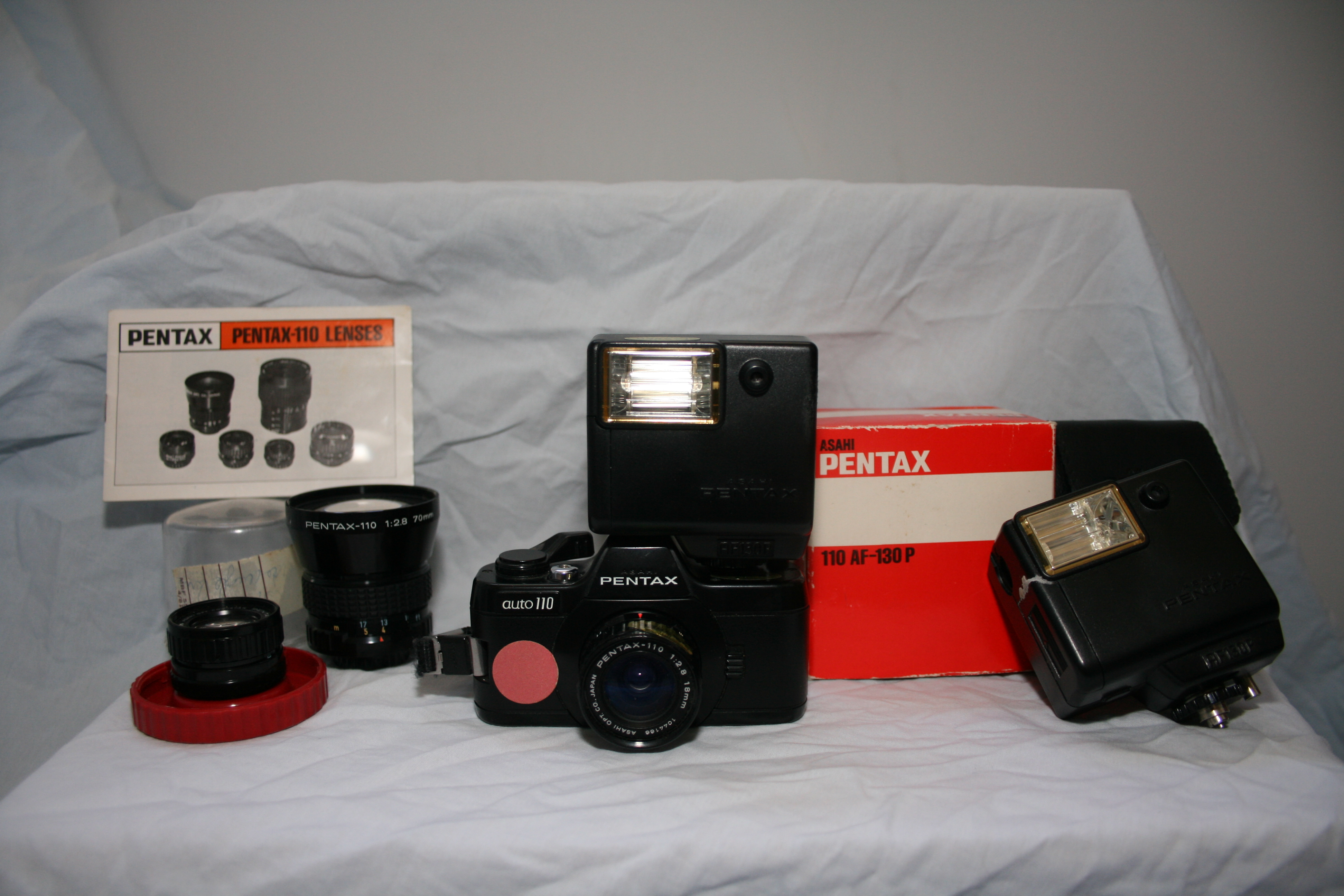 Pentax Auto 110 SLR camera.